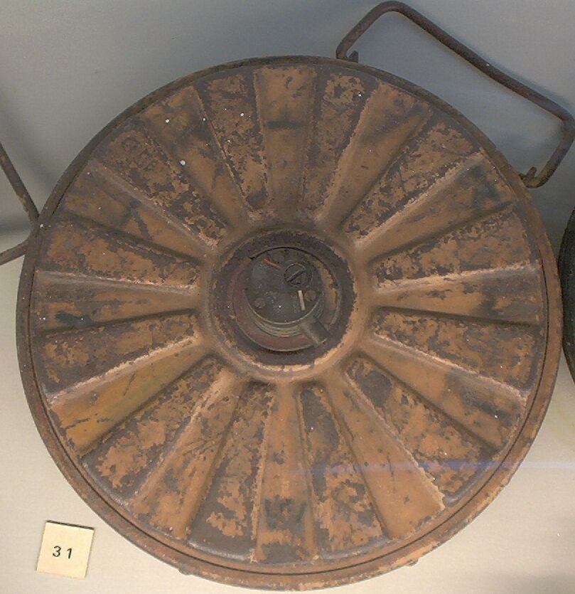 Tellermine 35 (Stahl) from WW2